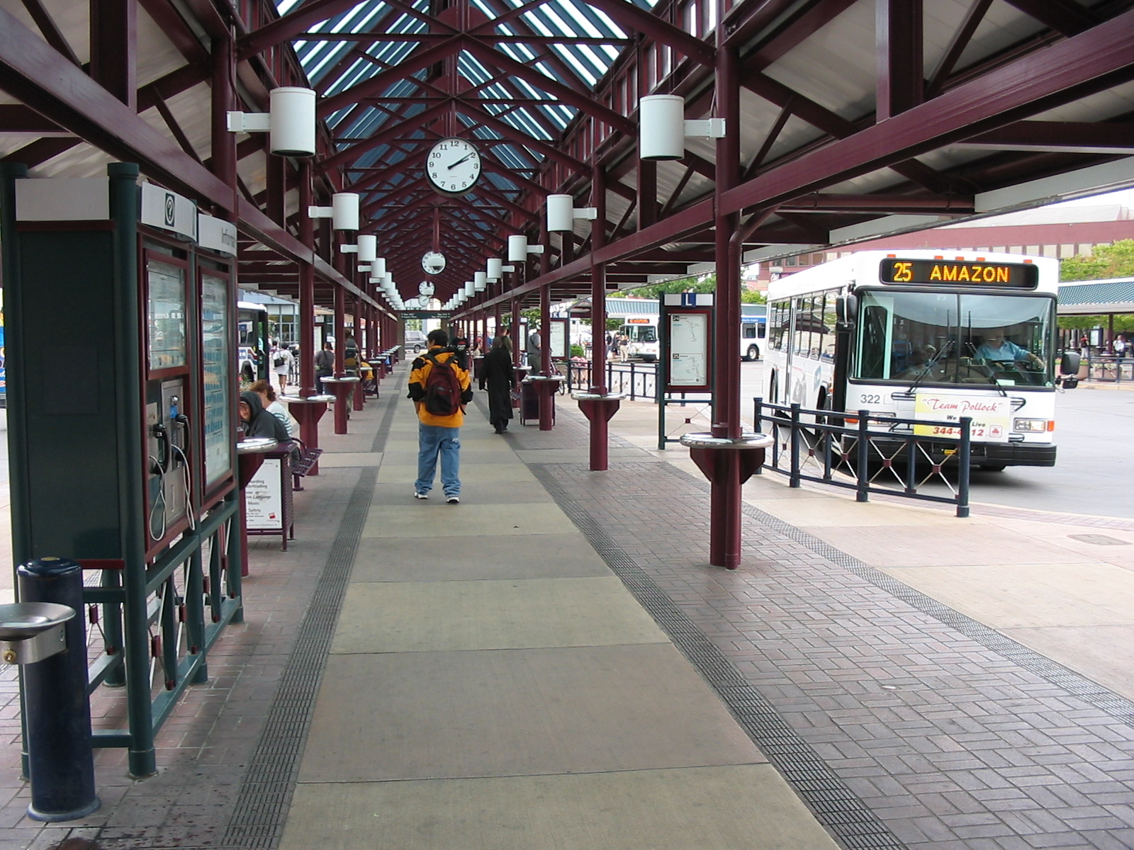 Lane Transit District's Eugene Station, the main transit hub in Eugene, Oregon.